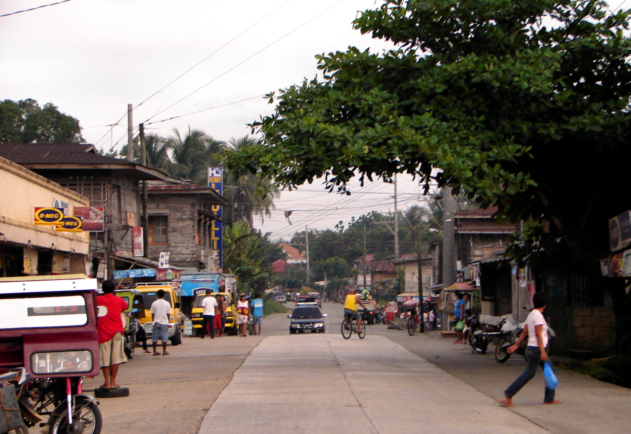 Poblacion of Maribojoc, Bohol, the Philippines